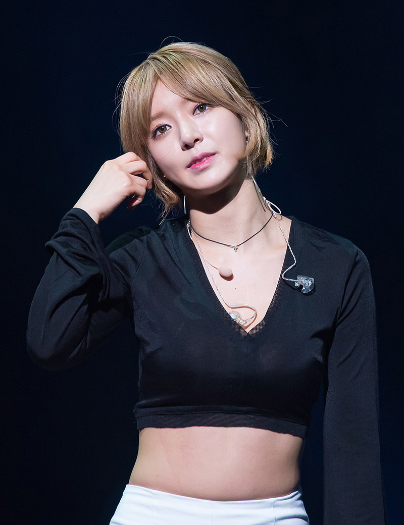 [16.06.11] AOA Mini Live Good Luck to ELVIS